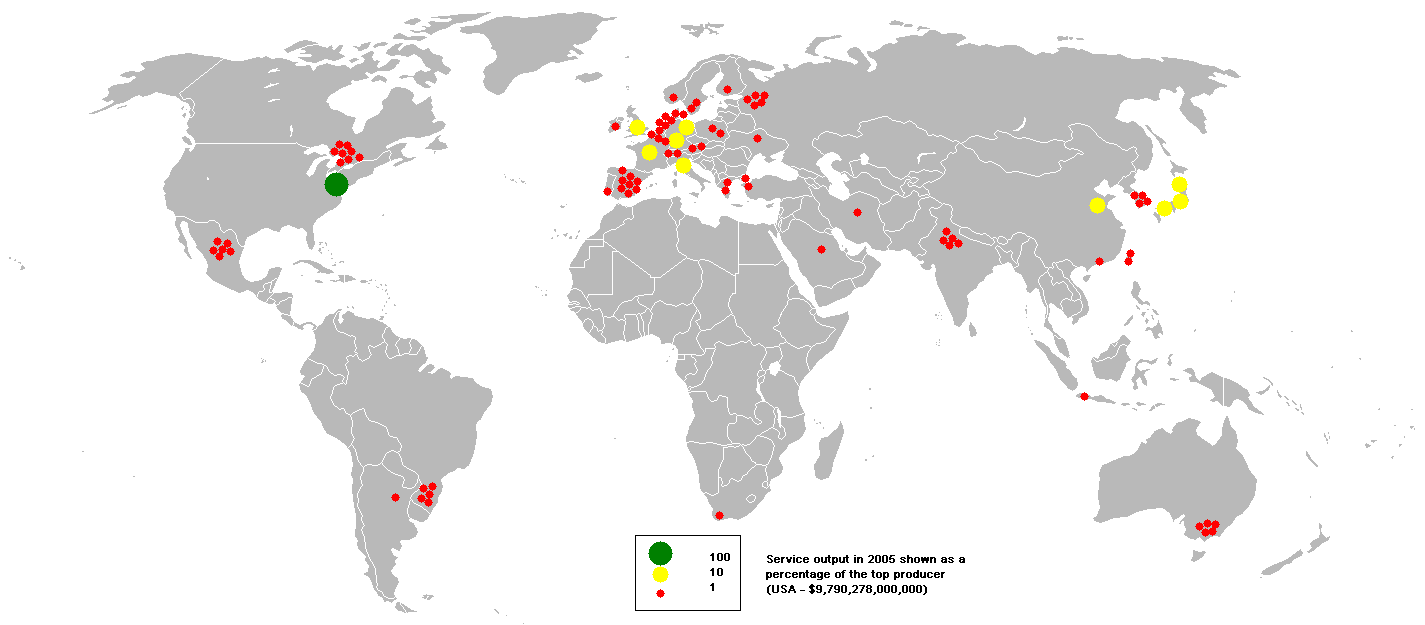 This bubble map shows the global distribution of output of value-added services in 2005 as a percentage of the the top producer (USA - $9,790,278,000,000). This map is consistent with incomplete set of data too as long as the top producer is known. It resolves the accessibility issues faced by colour-coded maps that may not be properly rendered in old computer screens. Data was extracted on 31st May 2007. Source